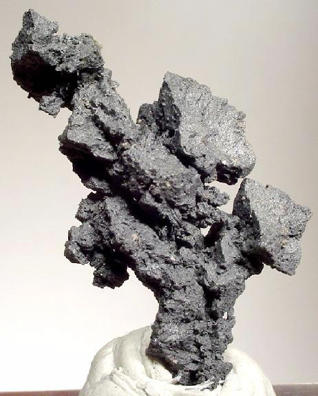 Acanthite Locality: Imiter Mine, Boumalne-Dadès, Ouarzazate Province, Souss-Massa-Draâ Region, Morocco (Locality at ) An EXCELLENT and AESTHETIC toenail of acanthite from the MAJOR MOROCCAN find shown at this years St. Marie Show in France. The piece consists of medium lustre, etched, octohedral acanthite crystals to 1.0 cm. These acanthites come from the Imiter Mine in the Anti-Atlas Mountains. Seasoned European collectors liken these pieces to classic Freiberg acanthite, which were never common. Many collectors and dealers expect these to become an instant classic. 3.1 x 1.7 x 1.4 cm